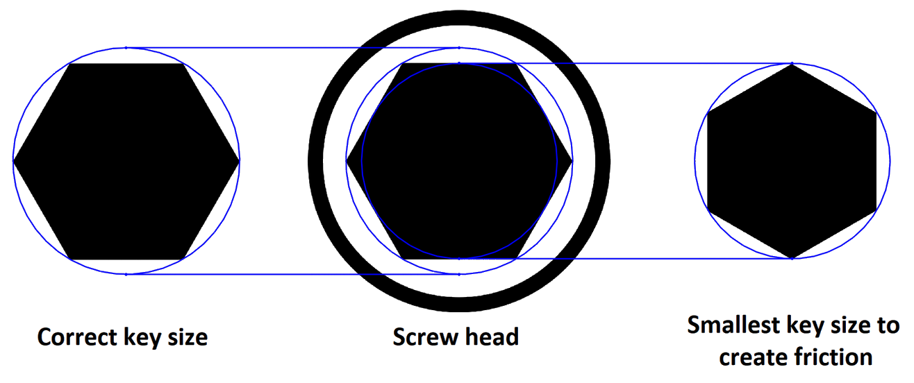 Illustration of safe hex key sizes (left and right) for a given hex head screw (middle). Metric 1st choice hex keys are sized at intervals such that it should not be possible to use a key with the wrong size, thereby reducing the risk of damaging either the screw head or the tool itself if the wrong tool should be used.